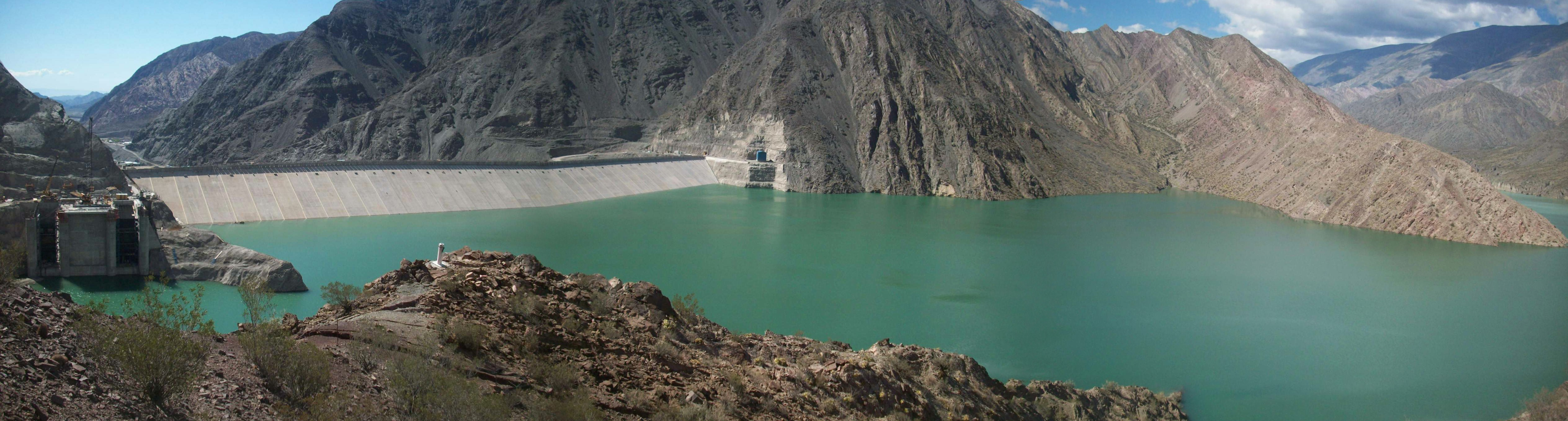 Los Caracoles Dam, Zonda and Ullum limeted, San Juan Province, Argentina.